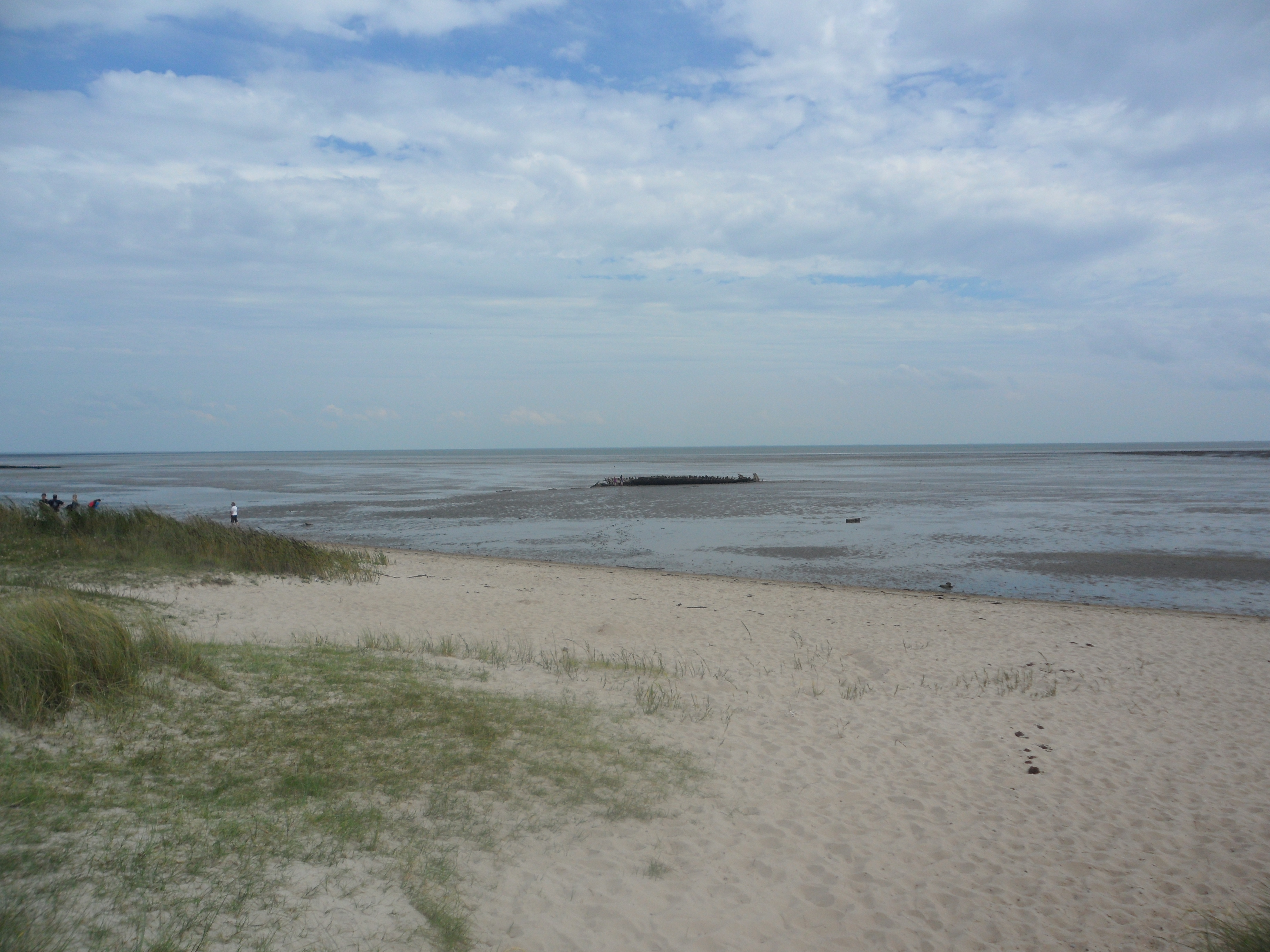 Part of the nature reserve "Wattenmeer nördlich des Hindenburgdammes" seen from the "Braderuper Heide/Sylt" nature reserve. In the wadden seee a wooden shipwreck is visible.